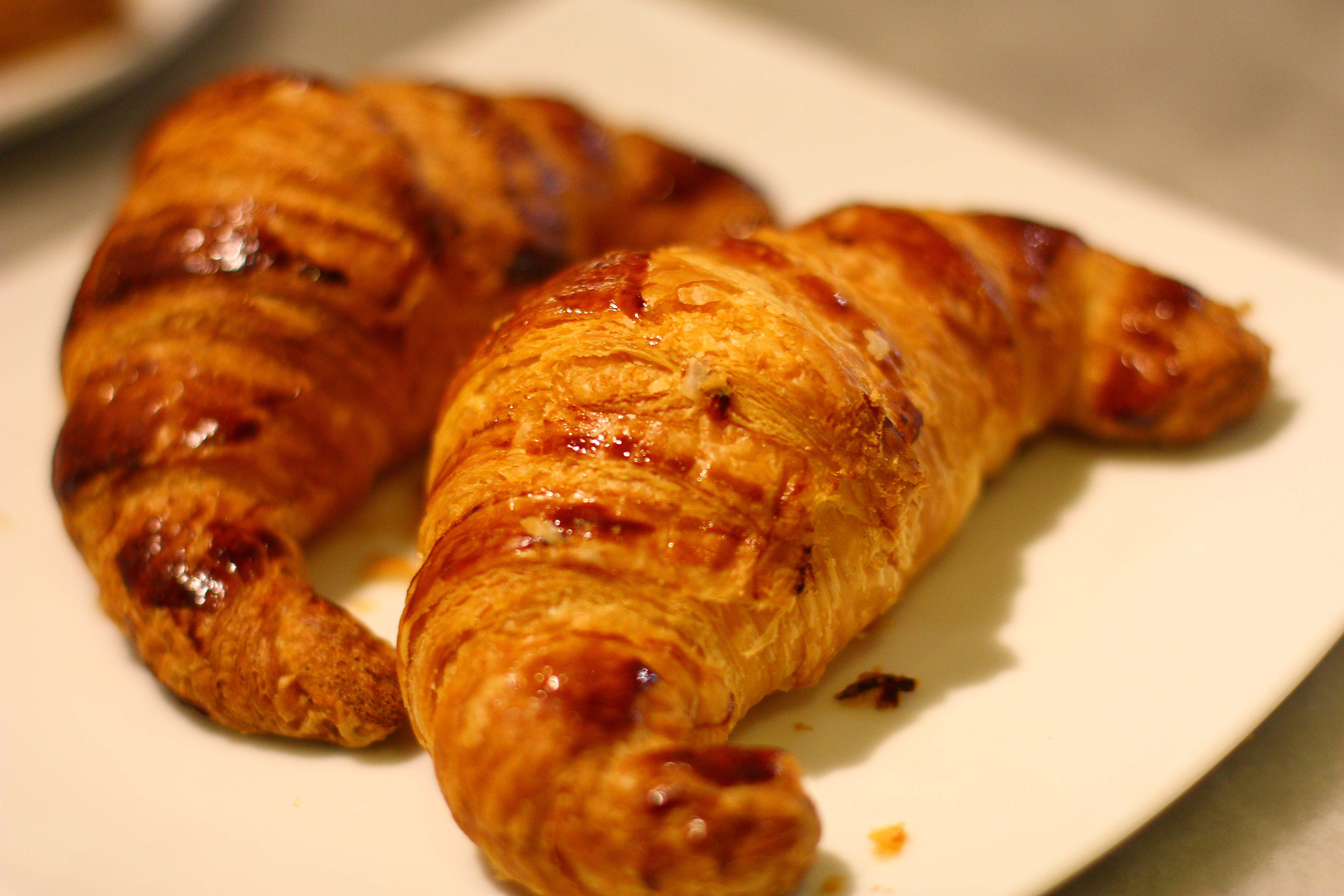 Croissants in Barcelona.